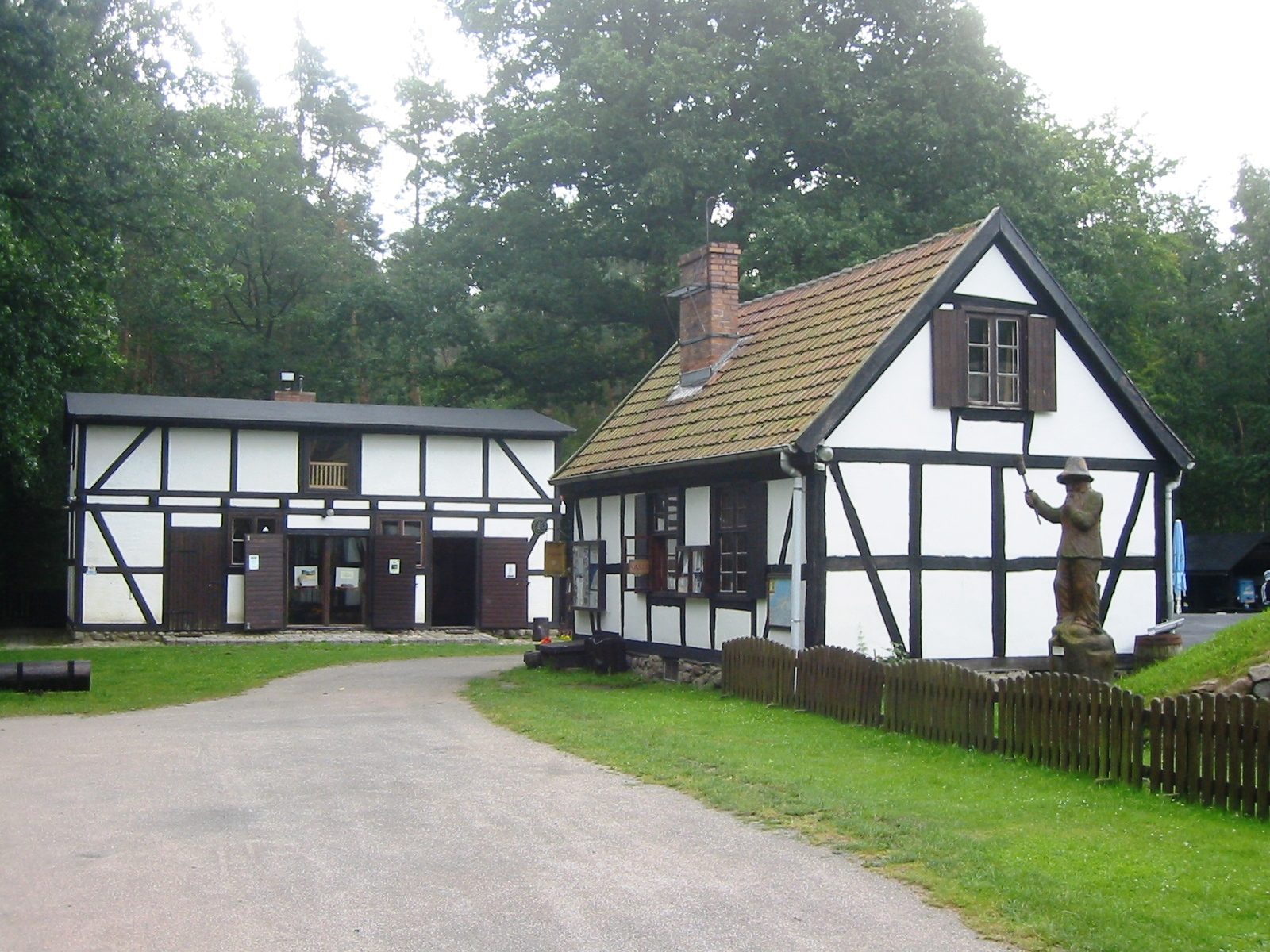 Wiethagen Forest and Charcoal Burning Lodge Museum in Rostock-Wiethagen